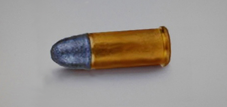 .44 S & W American